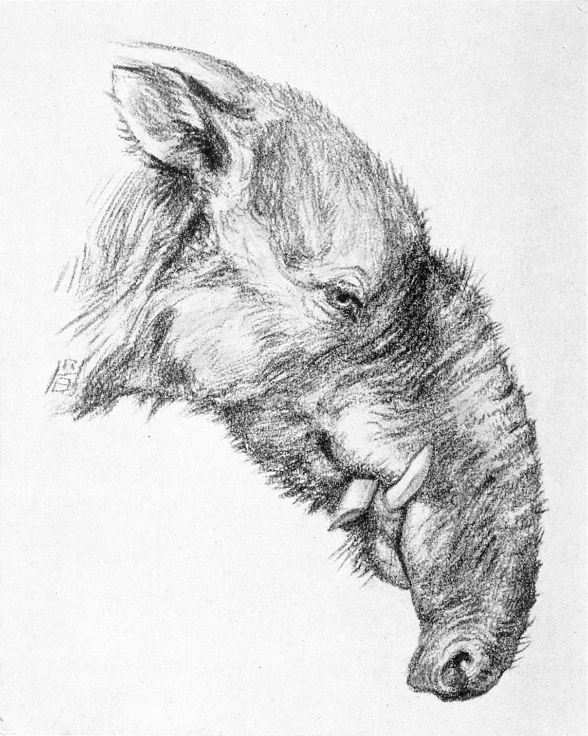 Life restoration of Astrapotherium magnum from W.B. Scott's "A History of Land Mammals in the Western Hemisphere." New York: The Macmillan Company.